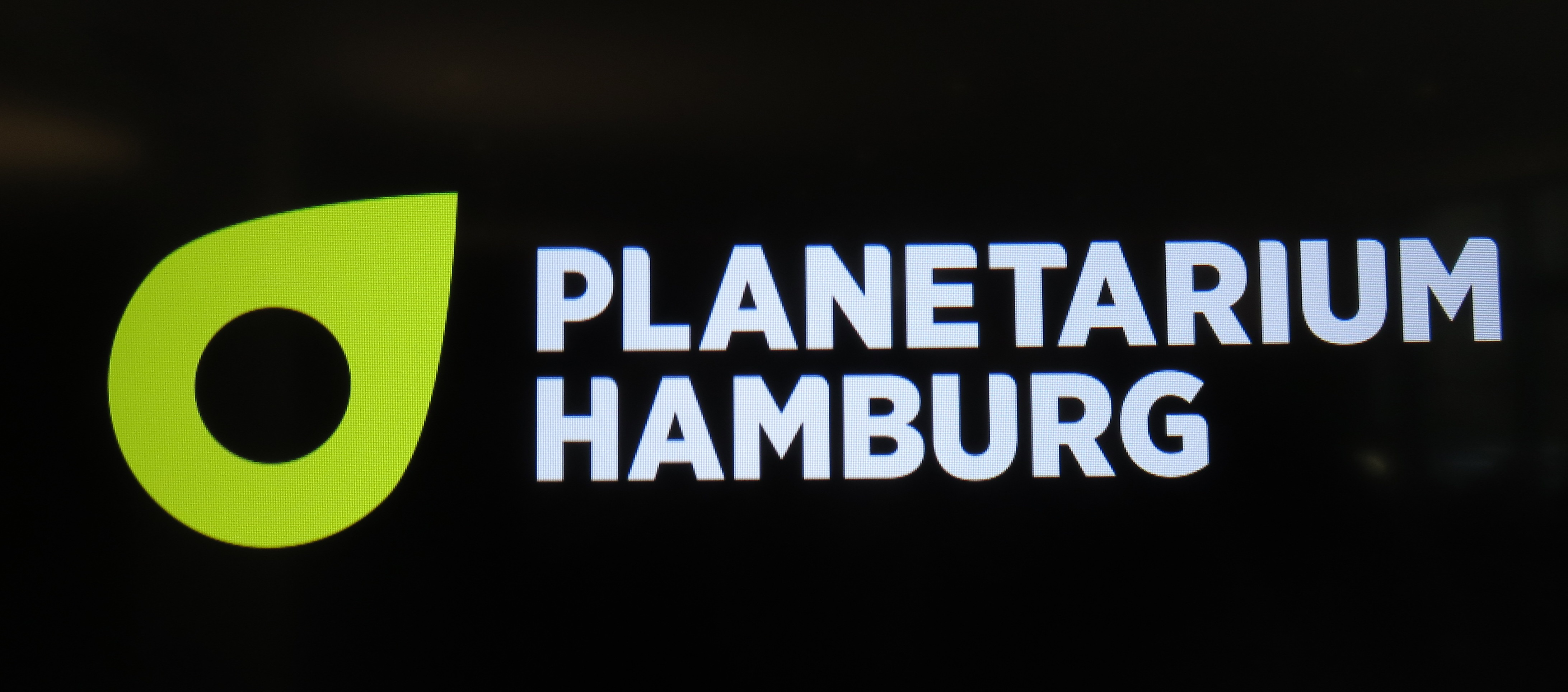 Planetarium Hamburg, Logo